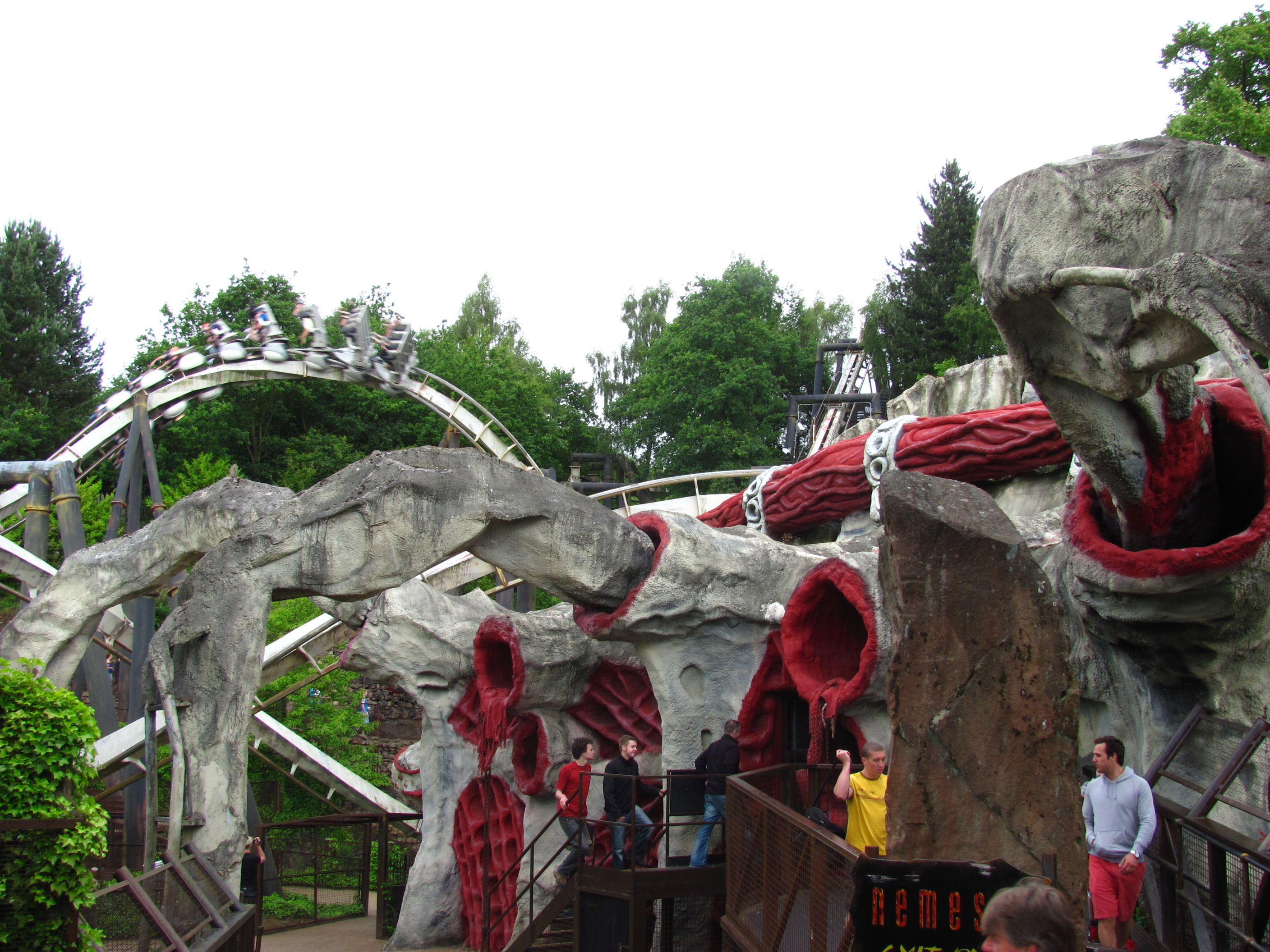 Alton Towers 142